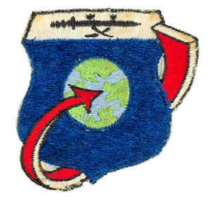 Emblem of the USAAF 322d Troop Carrier Squadron (approved 27 February 1957